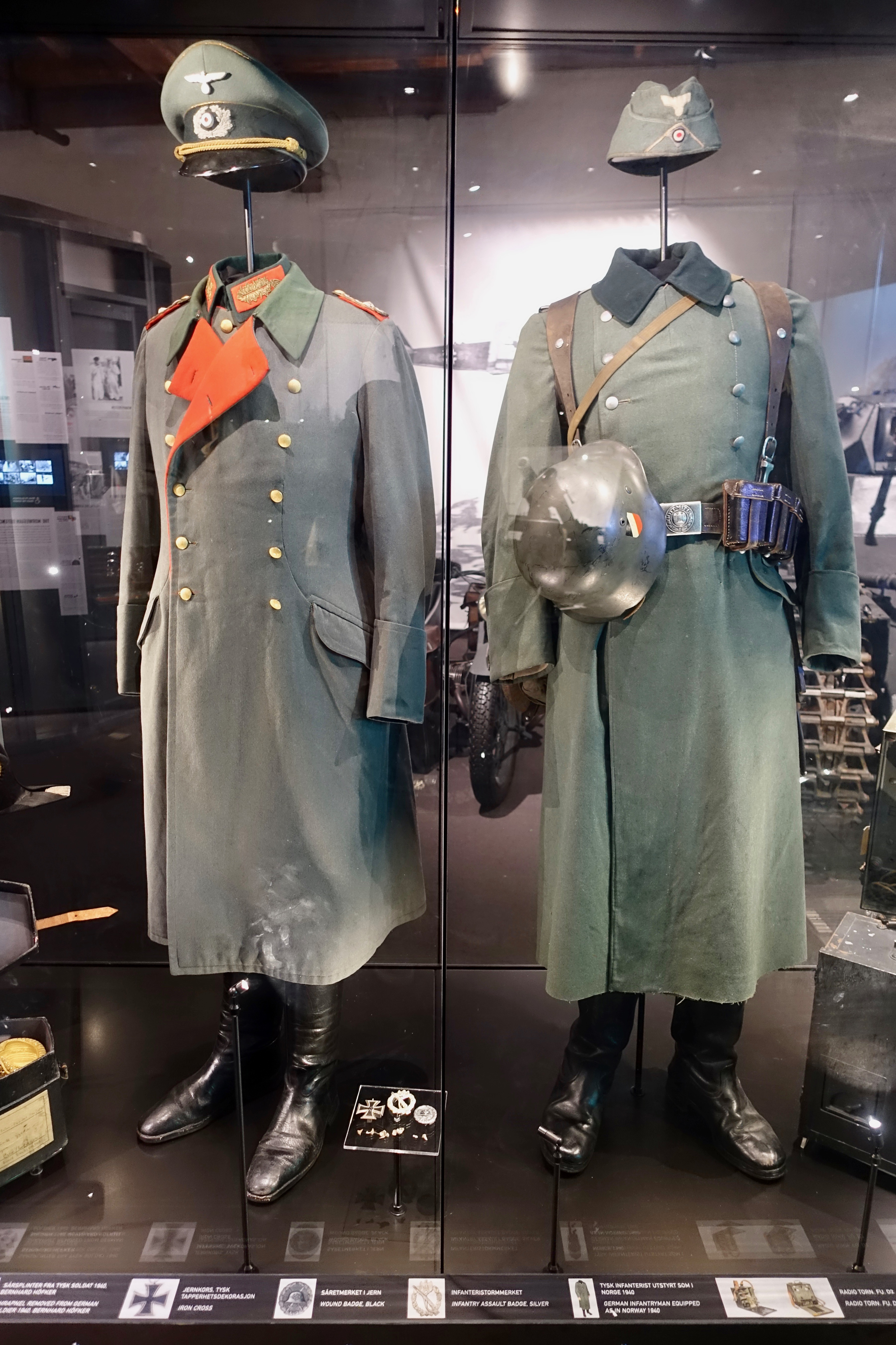 WW2 German army (Wehrmacht) uniforms in Norway 1940: General: Officer's visor cap (peaked cap, Schirmmütze), doubled buttoned greatcoat with red lapels, , and jackboots (officers' boots were knee-high, more form-fitting, and to be worn with breeches). Uniform of Richard Pellengahr, German general (Generalleutnant) in the Wehrmacht and leader of 196th ID, one of three infantry divisons in Norway during the Operation Weserübung, Germany's assault on Denmark and Norway during the Second World War April 9, 1940 and the opening operation of the Norwegian Campaign (to June 10, 1940). Private infantryman: Doubled buttoned greatcoat, steel helmet (Stahlhelm), side cap (folding garrison or envelope cap, Feldmütze, Schiffchen), and jackboots (Marschstiefel, "marching boots"). Photo taken on March 31, 2019 at Norwegian Armed Forces Museum (Forsvarsmuseet) in Oslo, Norway. Legal disclaimer This image shows (or resembles) a symbol that was used by the National Socialist (NSDAP/Nazi) government of Germany or an organization closely associated to it, or another party which has been banned by the Federal Constitutional Court of Germany. The use of insignia of organizations that have been banned in Germany (like the Nazi swastika or the arrow cross) are also illegal in Austria, Hungary, Poland, Czech Republic, France, Brazil, Israel, Ukraine, Russia and other countries, depending on context. In Germany, the applicable law is paragraph 86a of the criminal code (StGB), in Poland – Art. 256 of the criminal code (Dz.U. 1997 nr 88 poz. 553).